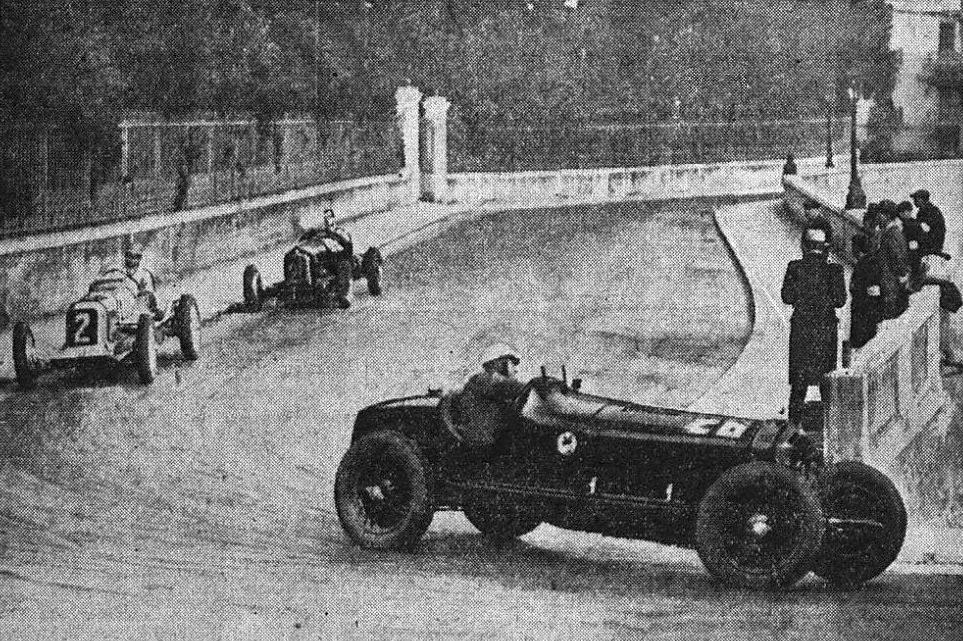 GP Monaco on 2 April 1934: In the back (last): Entry #20 is WINNER Guy Moll in the 1932 Alfa Romeo P3 Tipo B 5001 Middle: Entry #2 is Earl Howe in a Maserati 8CM, ended in 10th place Leading here: Entry #26 is Renato Balestrero in an Alfa Romeo 8C 2600 Monza